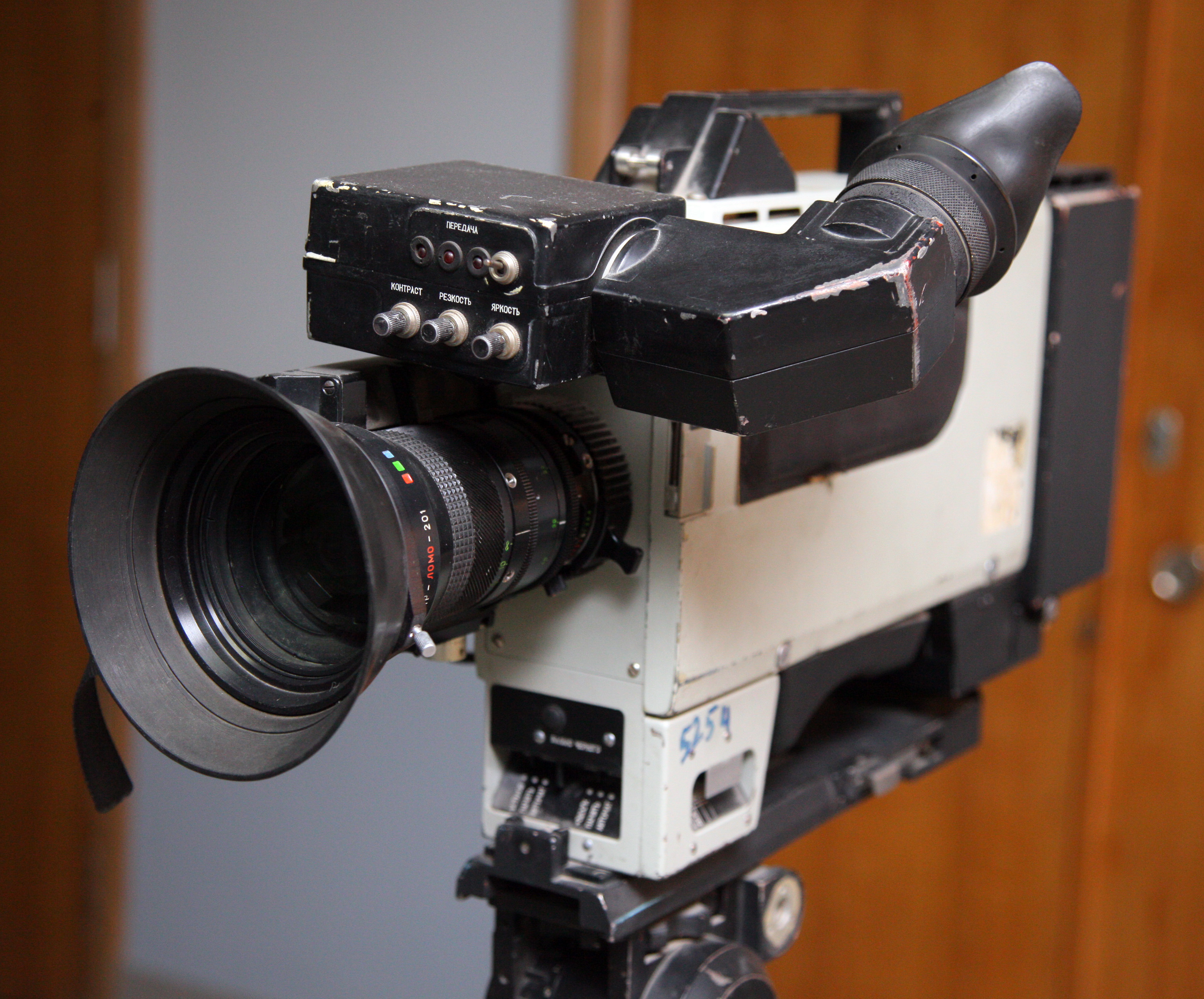 Soviet broadcasting camera KT-190 for ENG/EFP